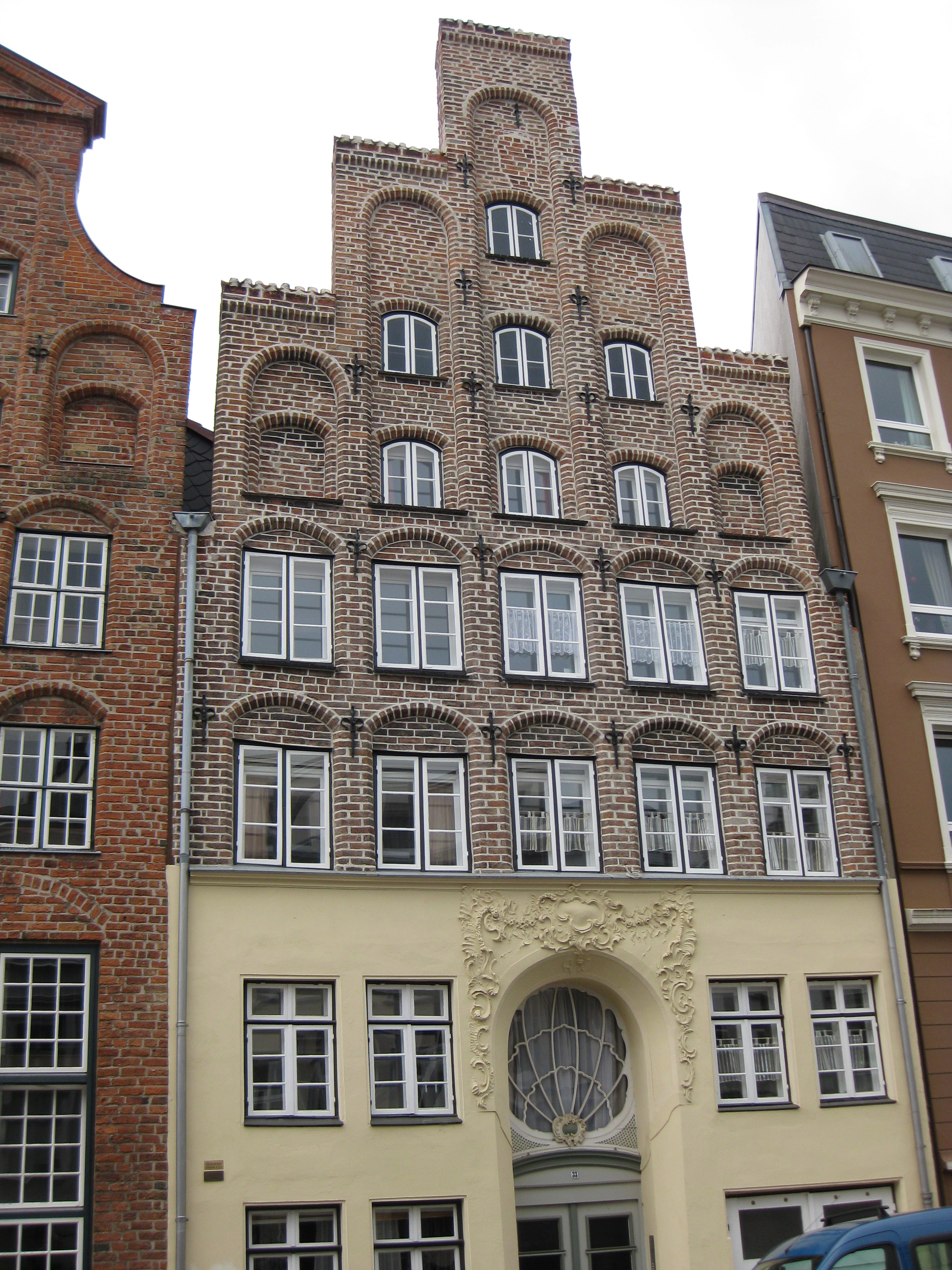 Gabled house in Große Alte Fähre of Lübecks old town.